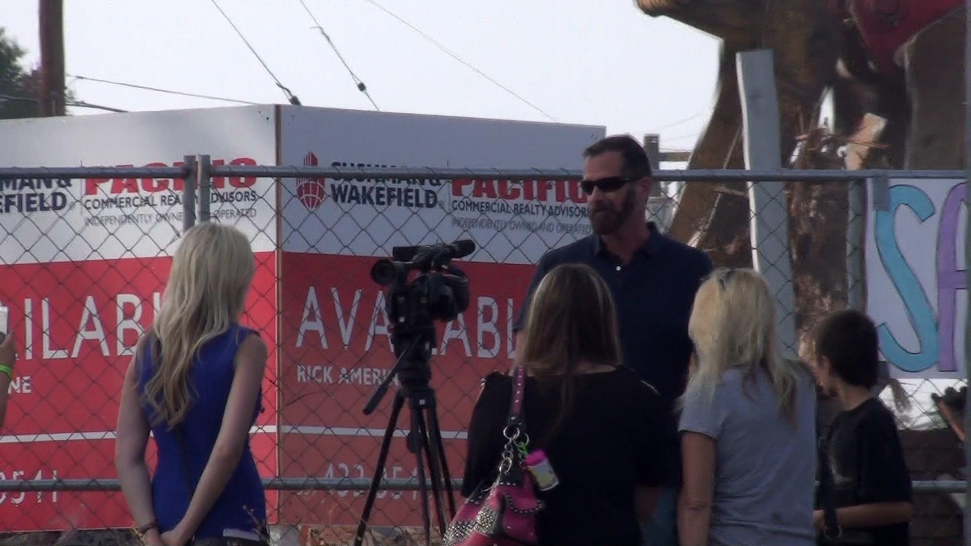 As demolition continues, Todd Wolfe speaks to reporters.